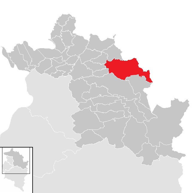 District Bregenz